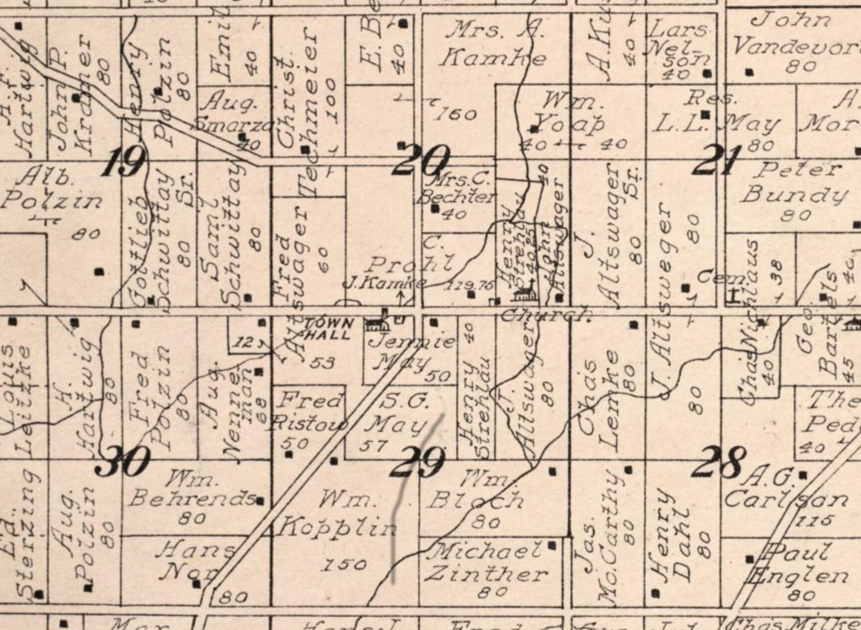 Map detail of May Corner, Wisconsin. From Standard Atlas of Marinette County Wisconsin Including a Plat Book of the Villages, Cities and Townships of the County. 1912. Chicago: Geo. A. Ogle & Co.